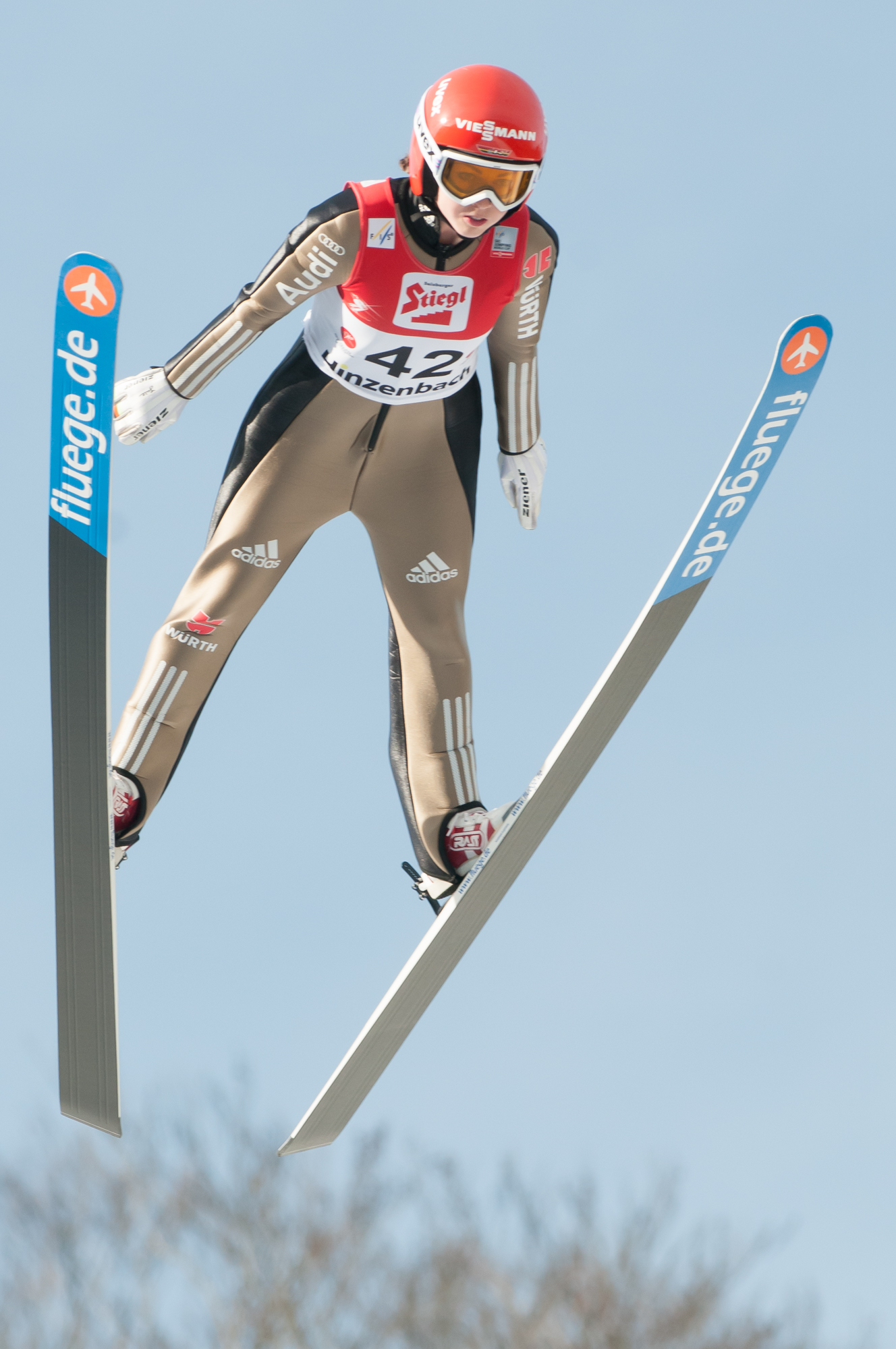 FIS Ski Jumping World Cup Ladies Hinzenbach 2016-02-07